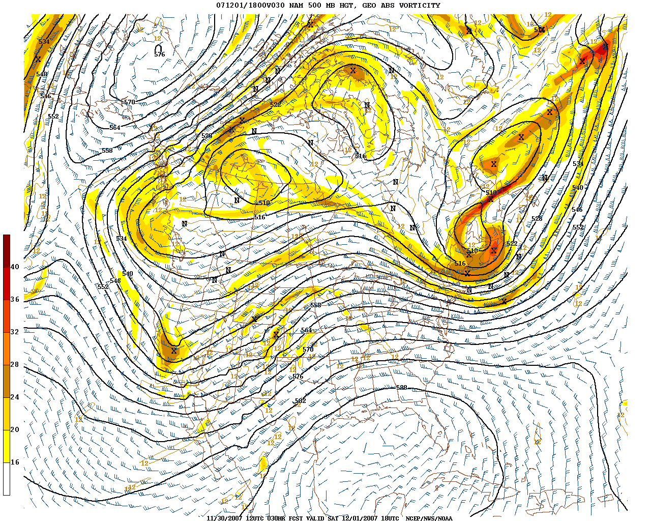 Typical circulation for the development of a Colorado Low, an explosive weather system forming over Southwest US during the cold season and affecting the Midwest US and Northeastern part of North America